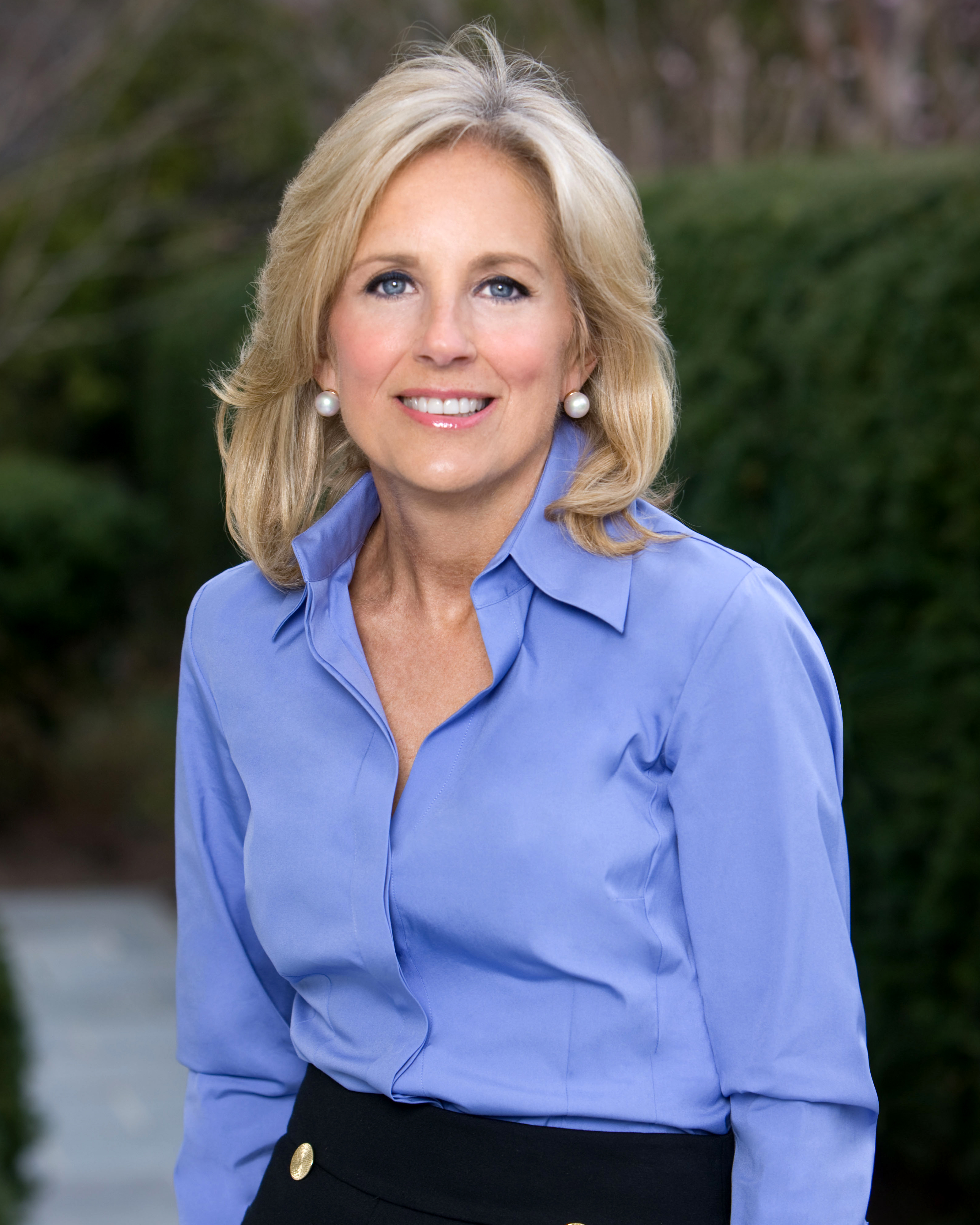 Official portrait of the Second Lady of the United States Jill Biden.